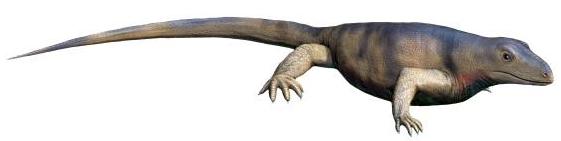 Archaeothyris florensis